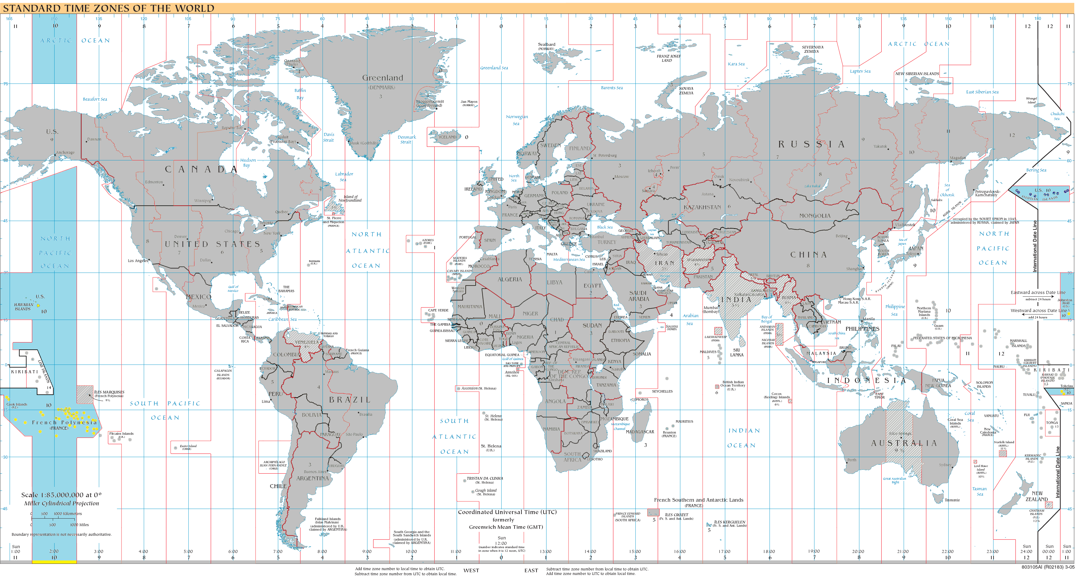 World map of time zones as of 2008, on the Miller Cylindrical Projection and with highlighted UTC-10 zone. Dark Blue - UTC-10 during Northern Winter / Southern Summer Orange - UTC-10 during Northern Summer / Southern Winter Yellow - UTC-10 all year round Light Blue - UTC-10 sea areas